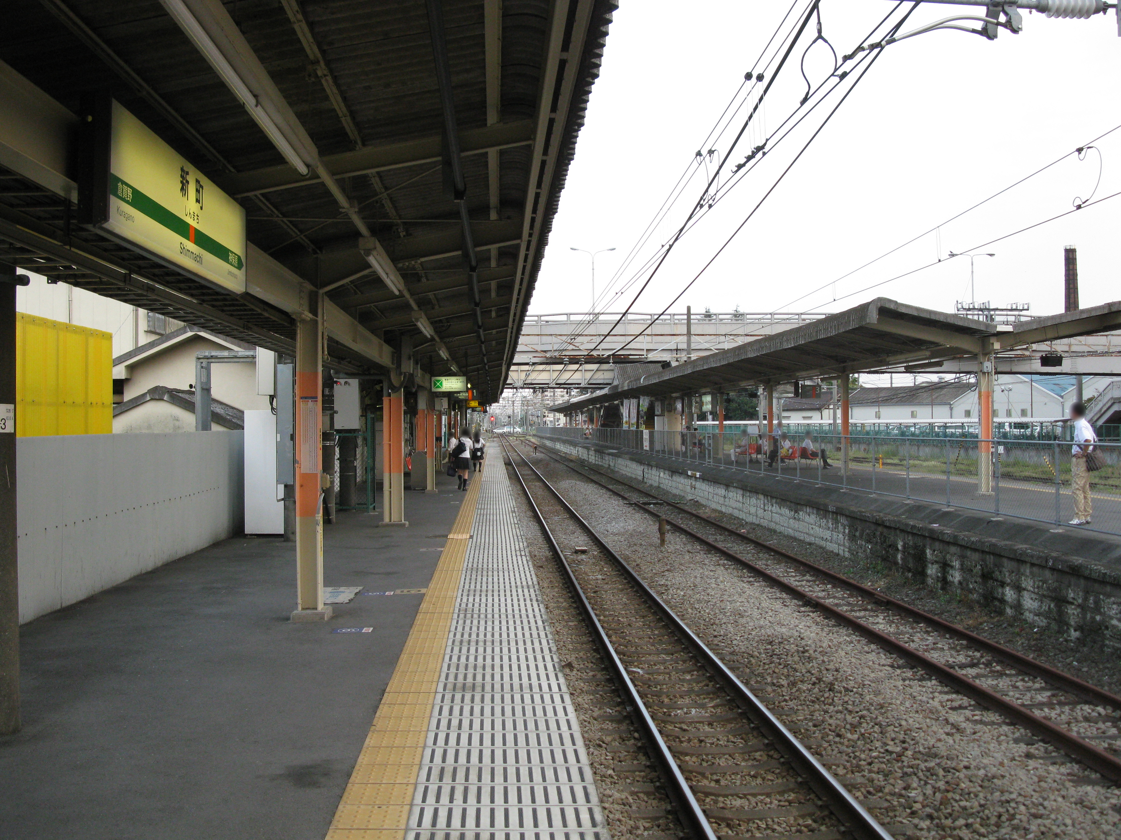 Shinmachi Station platform (East Japan Railway(JR East) Takasaki Line)